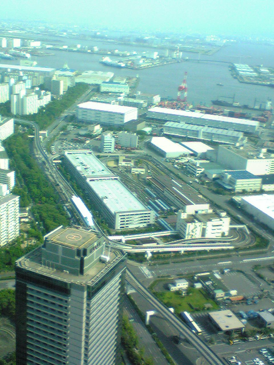 Newtram Tramstation